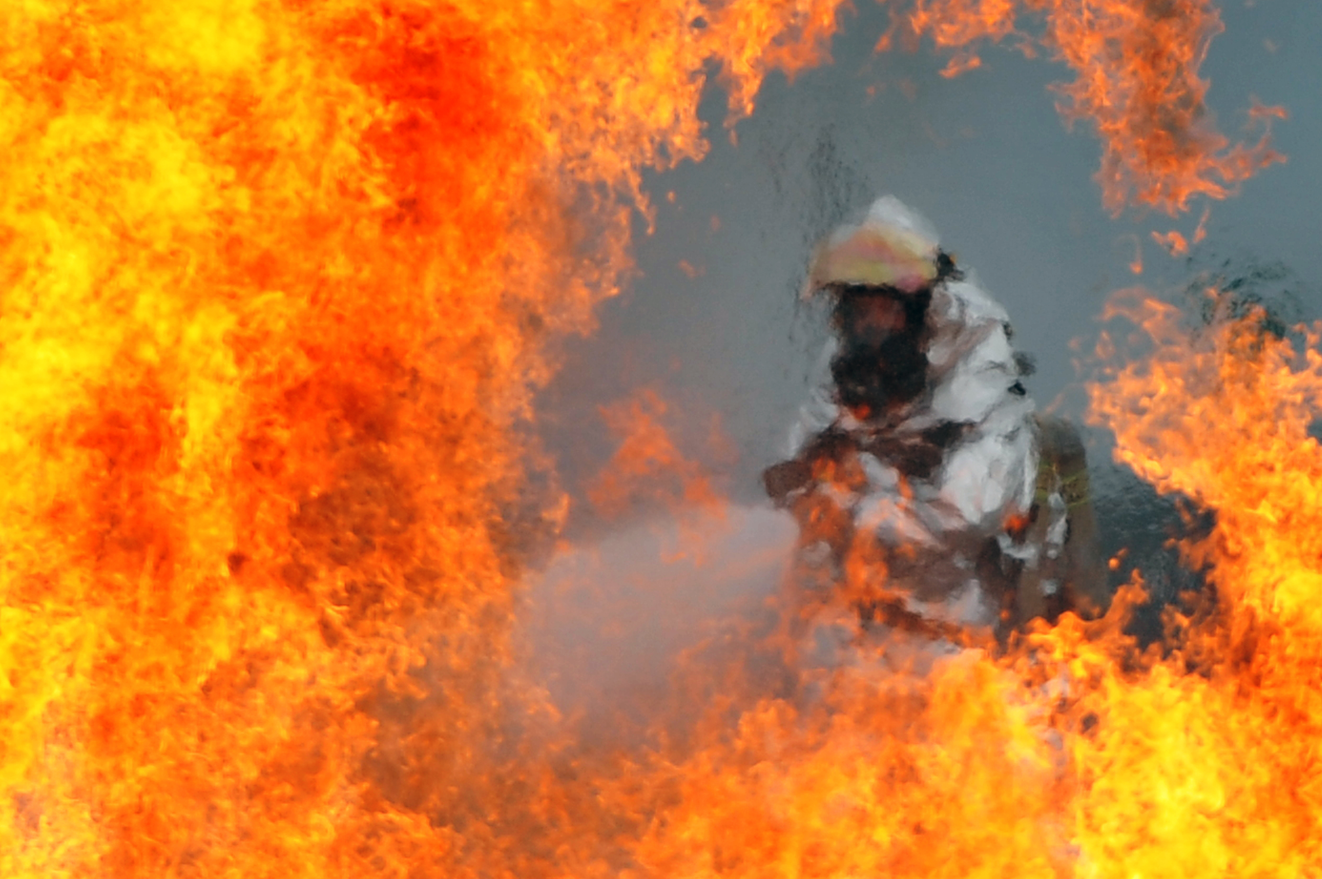 A U.S. Air Force firefighter sprays water at the fire of a simulated C-130 Hercules plane crash during operational readiness exercise Beverly Midnight 12-03 at Osan Air Base, Republic of Korea, on July 23, 2012. The exercise tests the ability of personnel to defend the base and conduct daily operations during a heightened state of readiness.